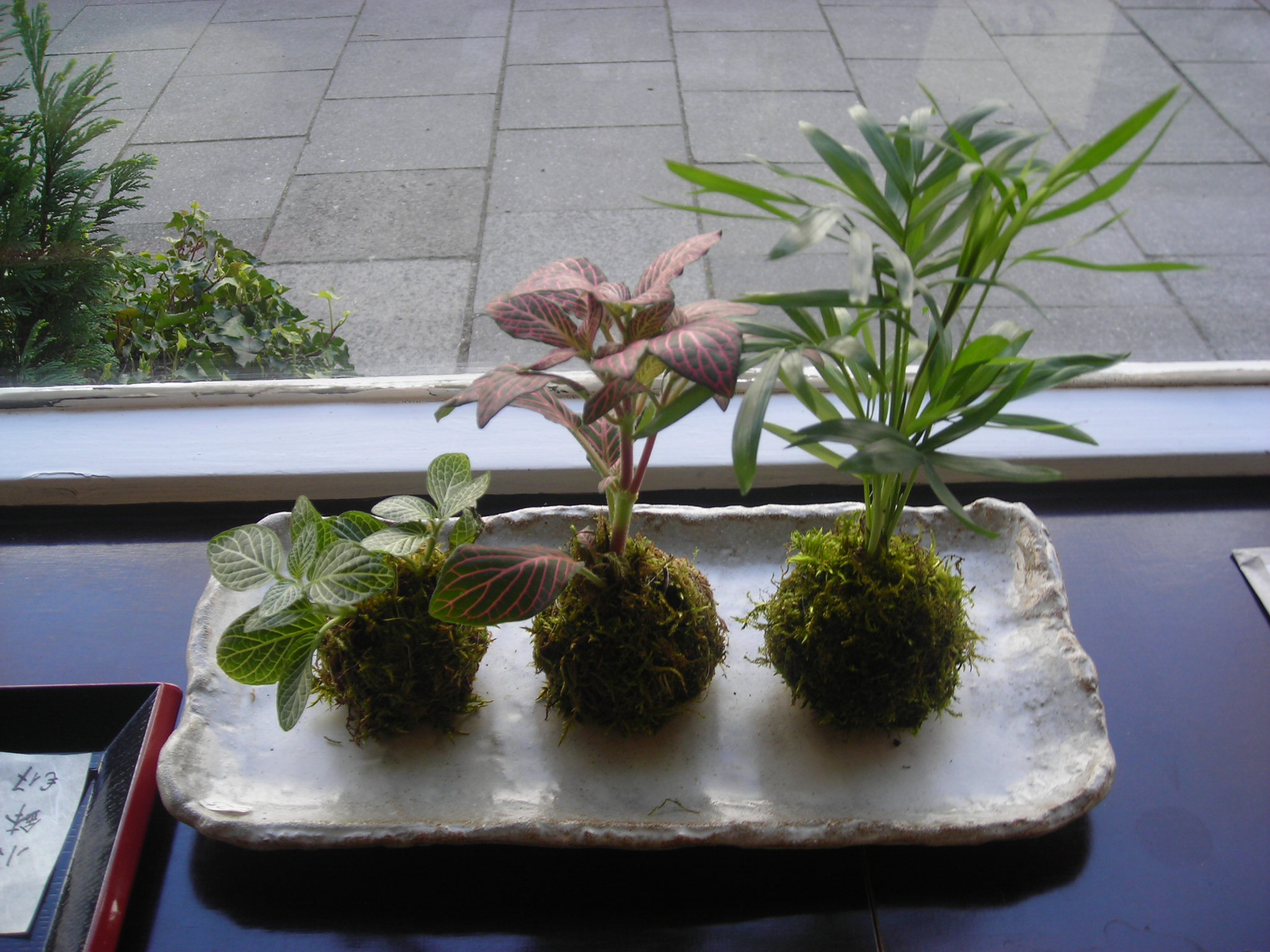 Ko Kay Da Ma, also known as Kokedama (sample).